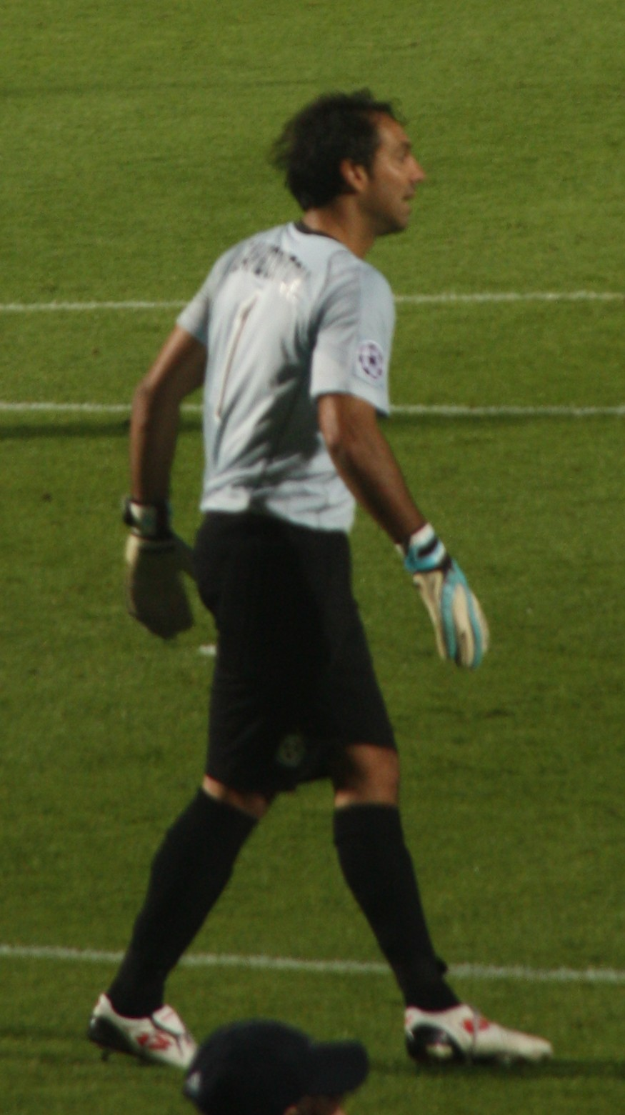 Nir Davidovich during Maccabi Haifa's Championsleague match vs. Girondins de Bordeaux